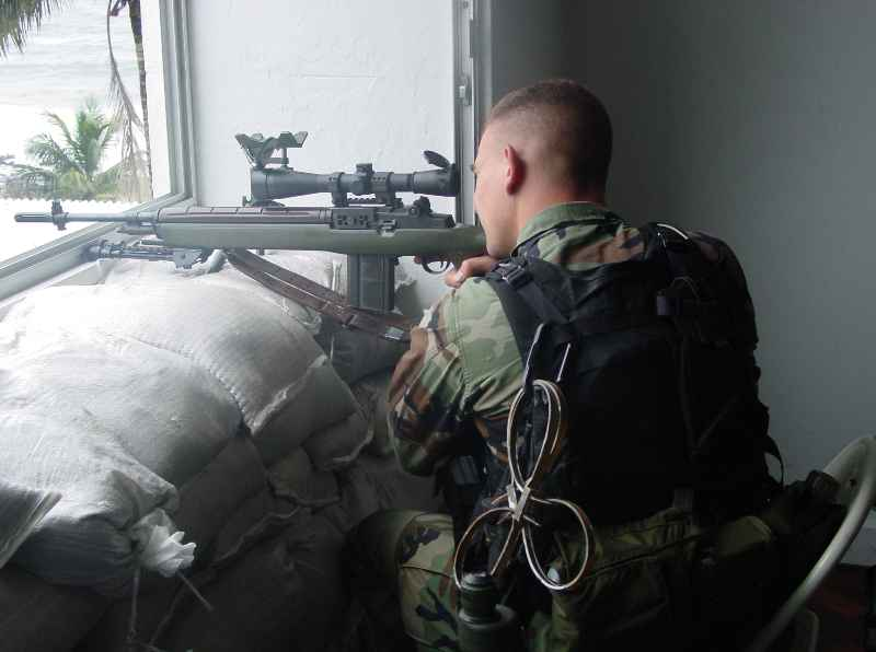 August 2003 — 3rd Platoon, 2nd FAST Company, Security Force Battalion firing position inside the American embassy in Monrovia, Liberia. The U. S. Marines were placed on alert to protect the embassy during civil unrest in this west African nation. Photo courtesy of peter3 at . Rifle is an U.S. Marine Corps Designated Marksman Rifle (DMR).